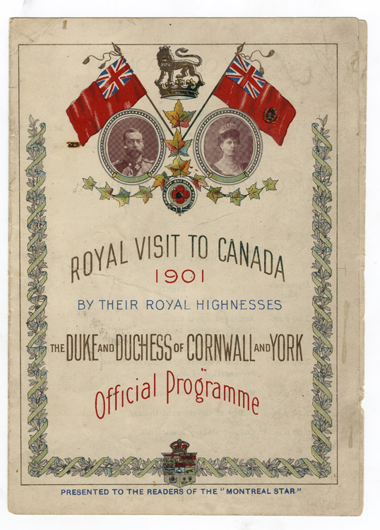 Front cover of the "Royal Visit to Canada 1901 by their Royal Highnesses the Duke and Duchess of York and Cornwall / Official Programme presented to the readers of the Montreal Star"